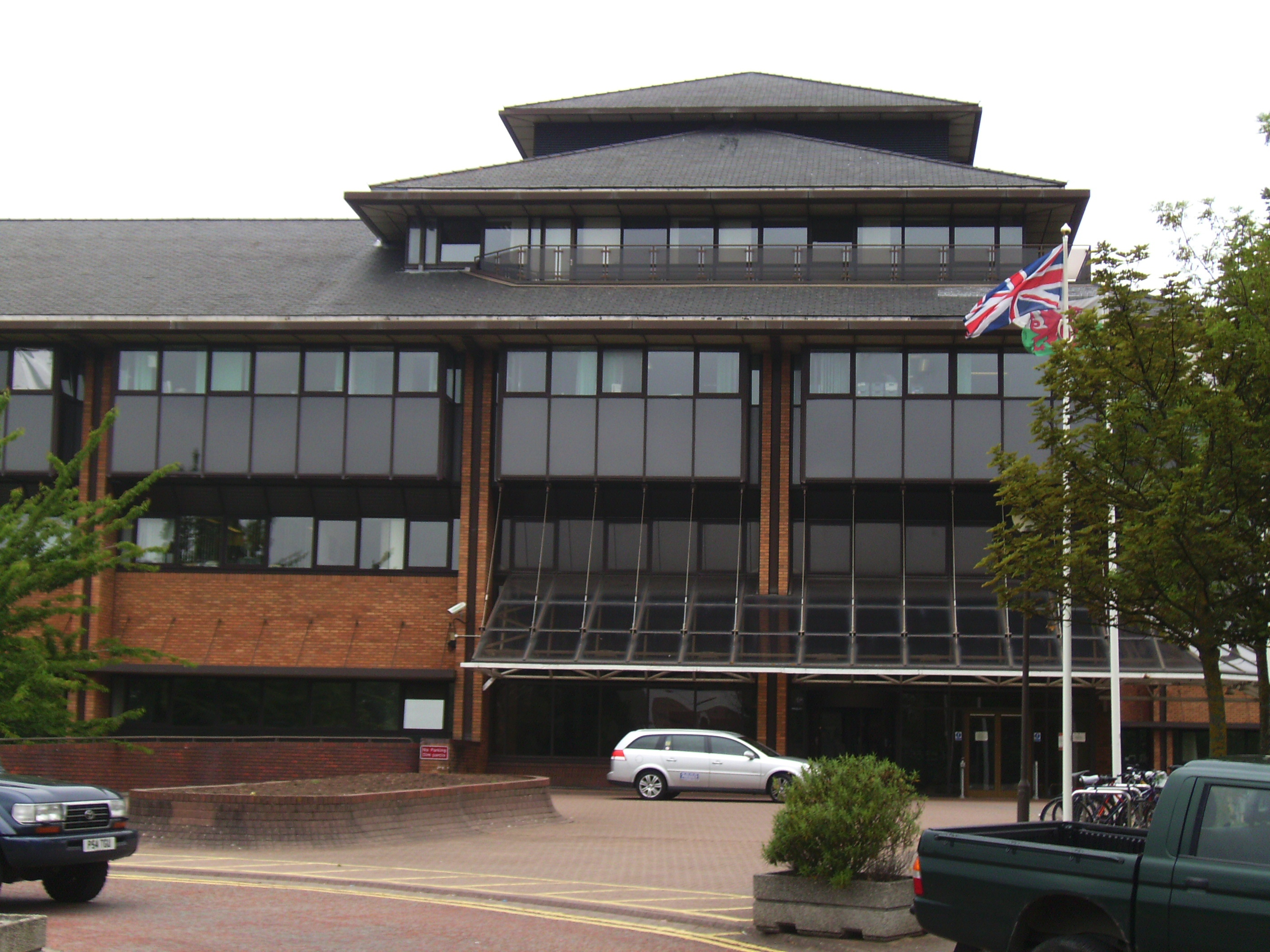 County Hall, Cardiff Bay, Cardiff, Wales